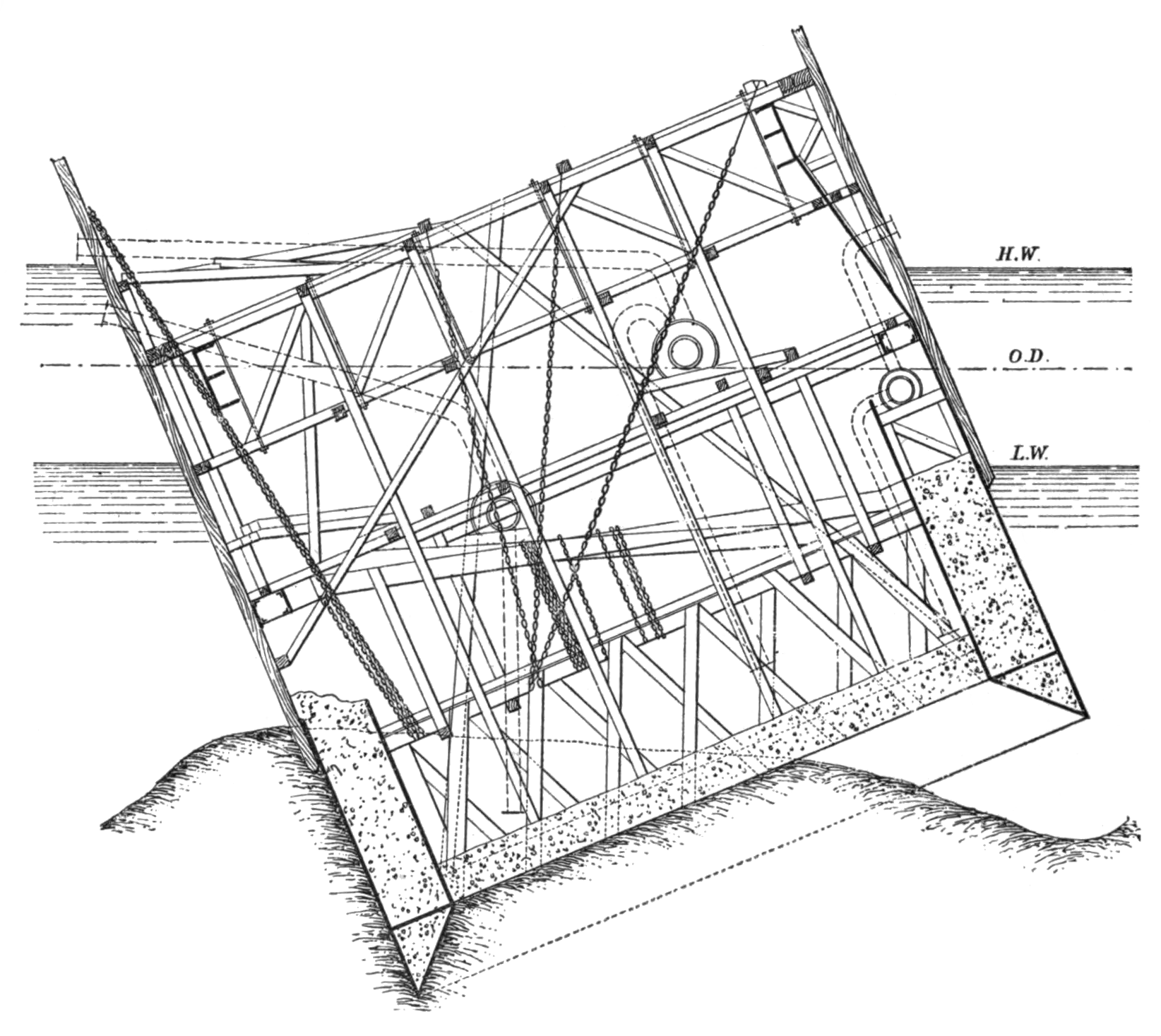 Forth Bridge (1890) Fig. 46, Page 26